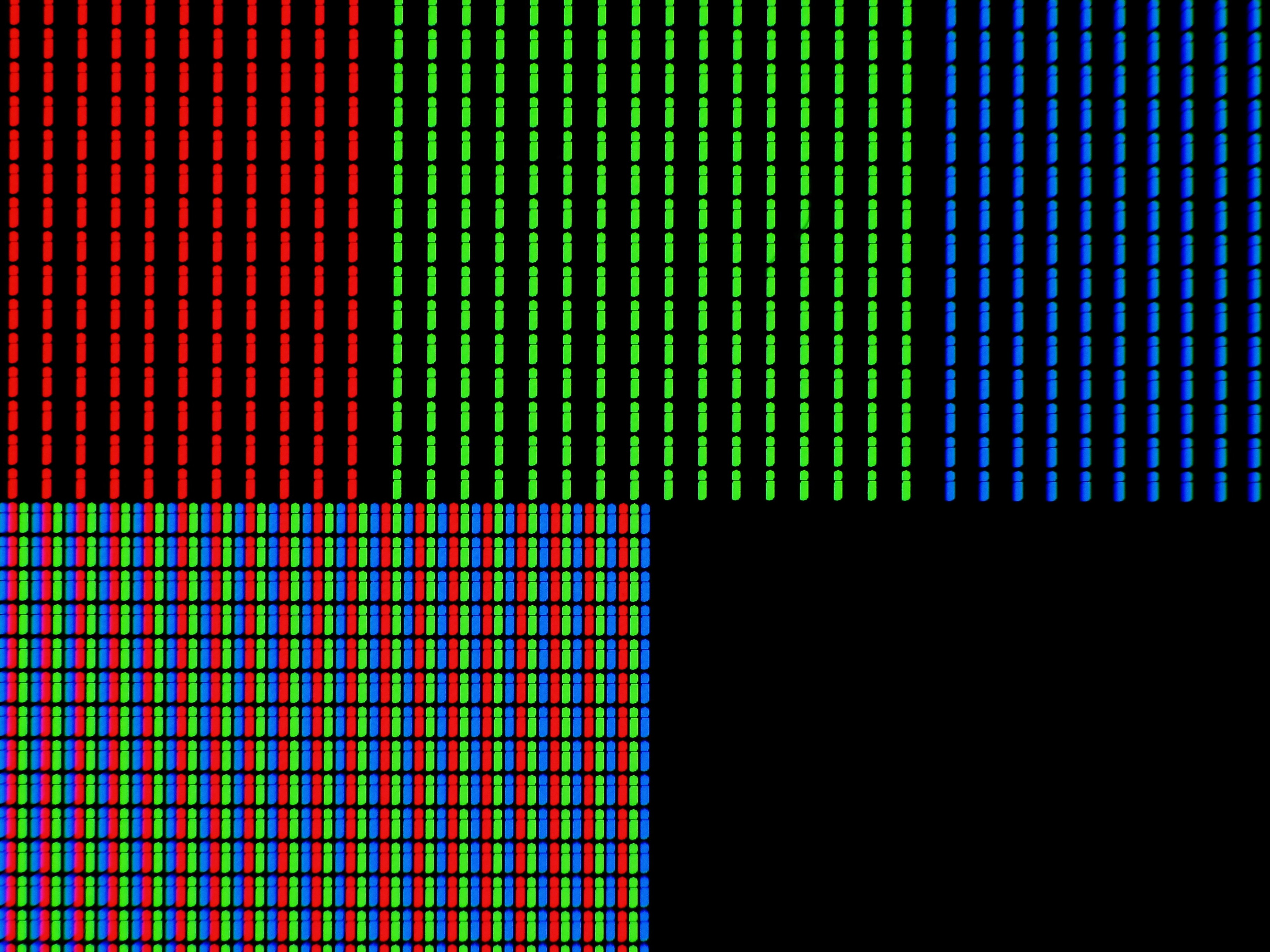 Pixels on LCD display (Acer Extensa 5620Z). Upper half - basic colors (from left: red, green, blue) Lower half: left - white, right - black